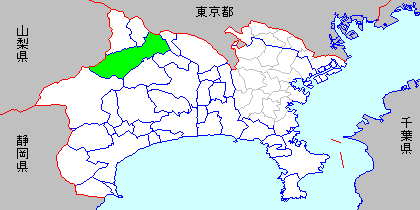 Map of former Tsukui Town, Kanagawa prefecture, Japan (now part of Sagamihara city)